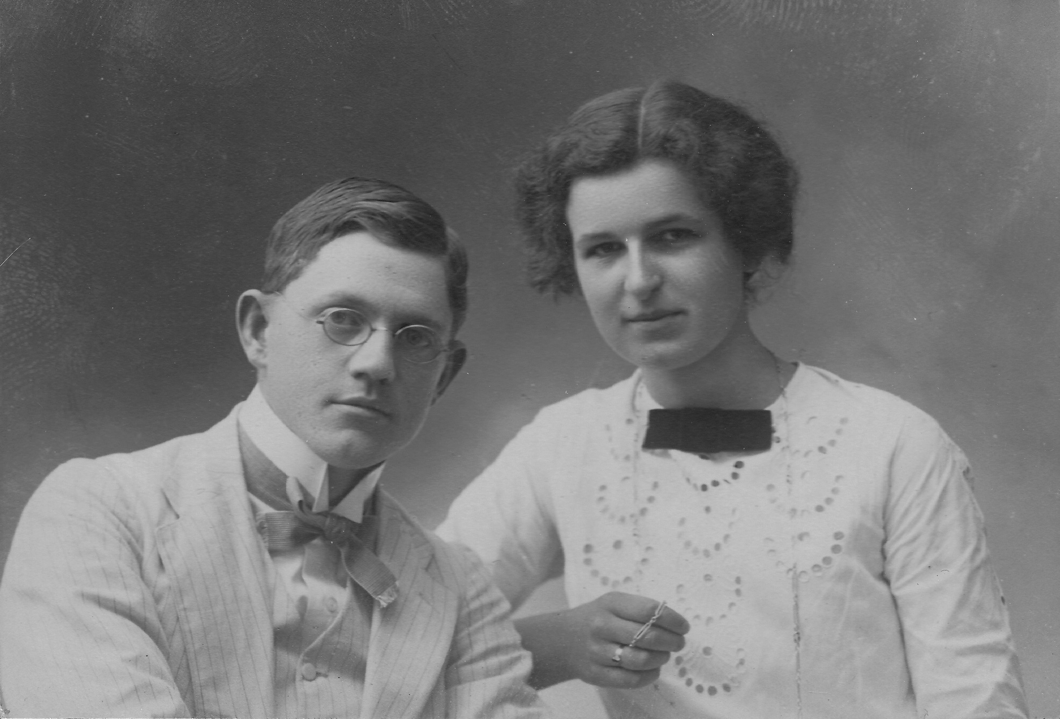 Bernard Karlgren with his wife Inna